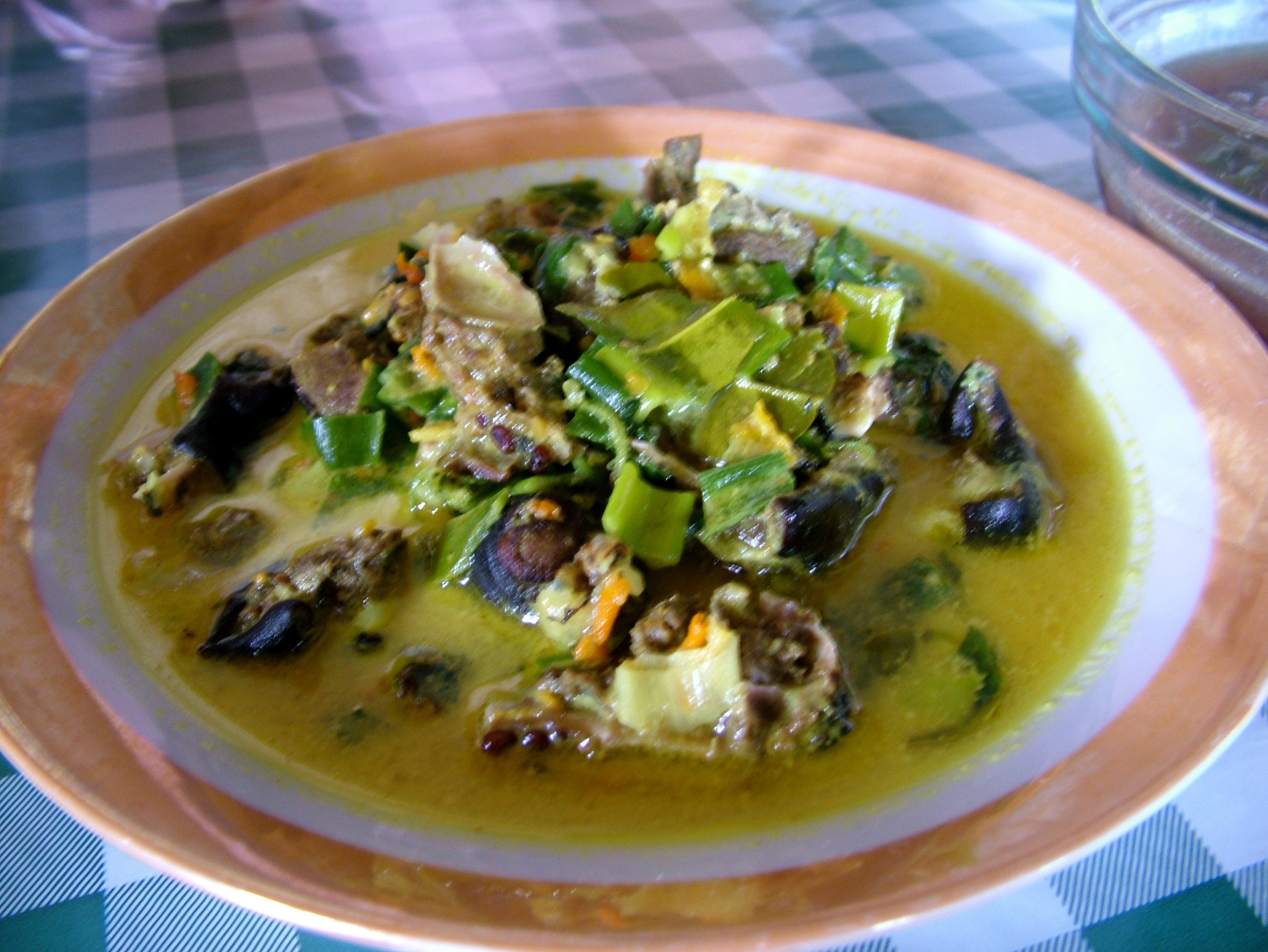 Paniki